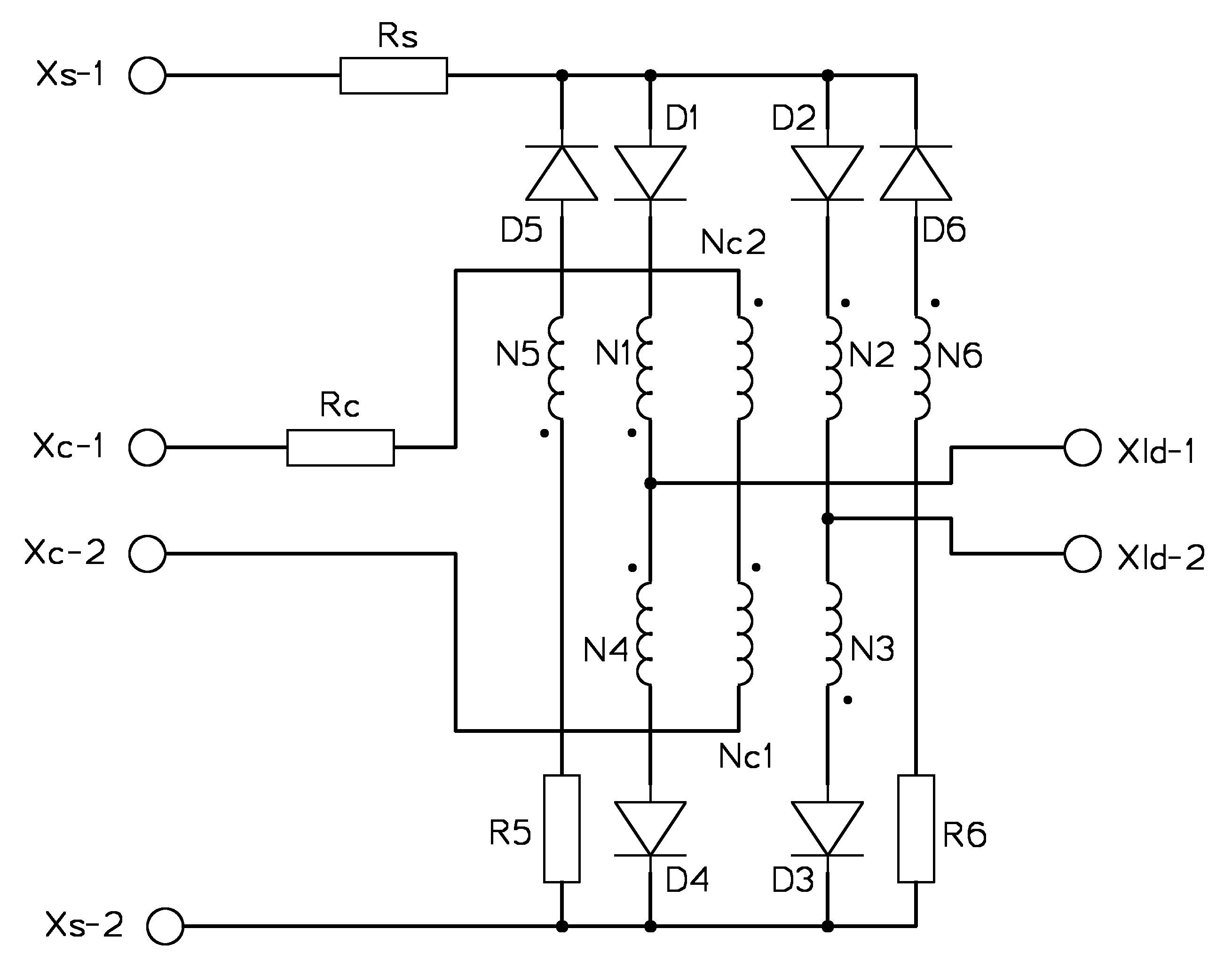 A half-wave push-pull magnetic amplifier as described by C. W. Lufcy and H. H. Woodson.[1] Windings N1, N3 and N5 are wound on ferromagnetic core 1. Windings N2, N4 and N6 are wound on ferromagnetic core 2. If cores 1 and 2 are stacked, then control windings Nc1 and Nc2 are actually the same one winding. Otherwise control winding Nc1 belongs to core 1 and control winding Nc2 belongs to core 2. The high-frequency AC supply voltage shall be connected to Xs-1 and Xs-2. The weak control signal to be amplified is connected to Xc-1 and Xc-2. The load is connected to Xld-1 and Xld-2.